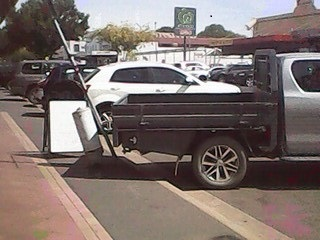 Street sign and cable termination pillar damaged by vehicle reverse parking